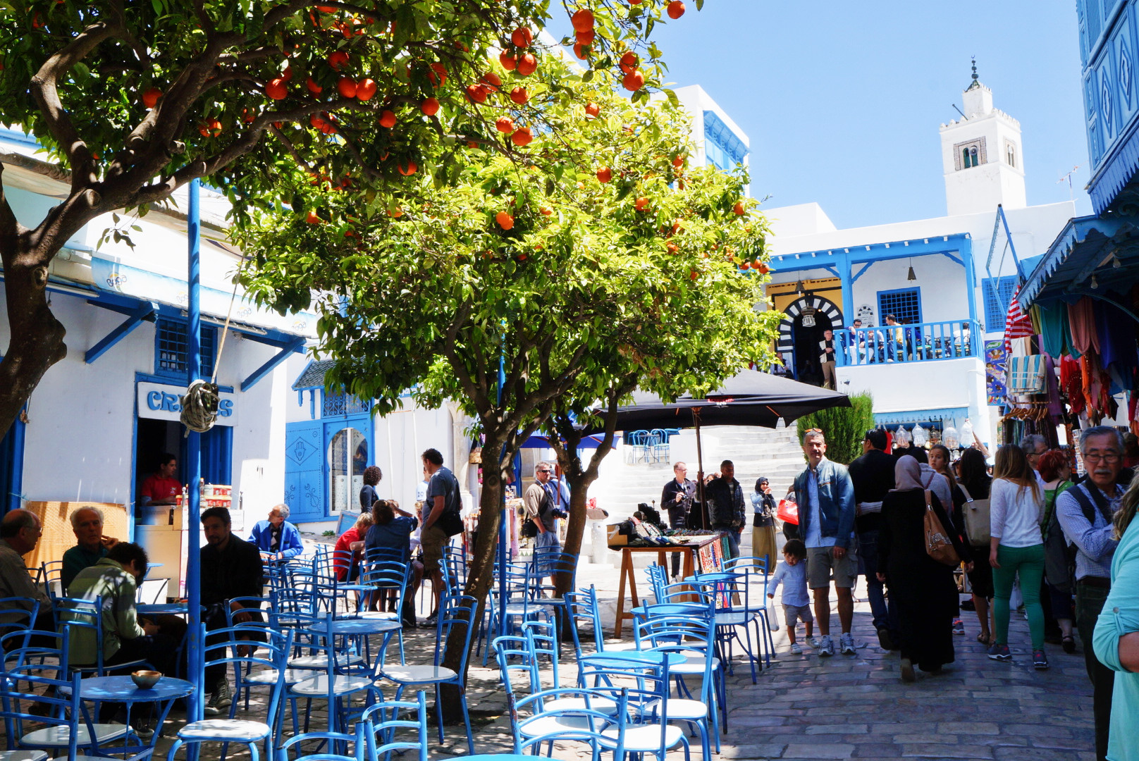 Sidi Bou Said is a town in northern Tunisia located about 20 km from the capital, Tunis. Cafe de delice and coast view Named for a religious figure who lived there, Abu Said ibn Khalef ibn Yahia al-Tamimi al-Baji (previously it was called Jabal el-Menar). The town itself is a tourist attraction and is known for its extensive use of blue and white.